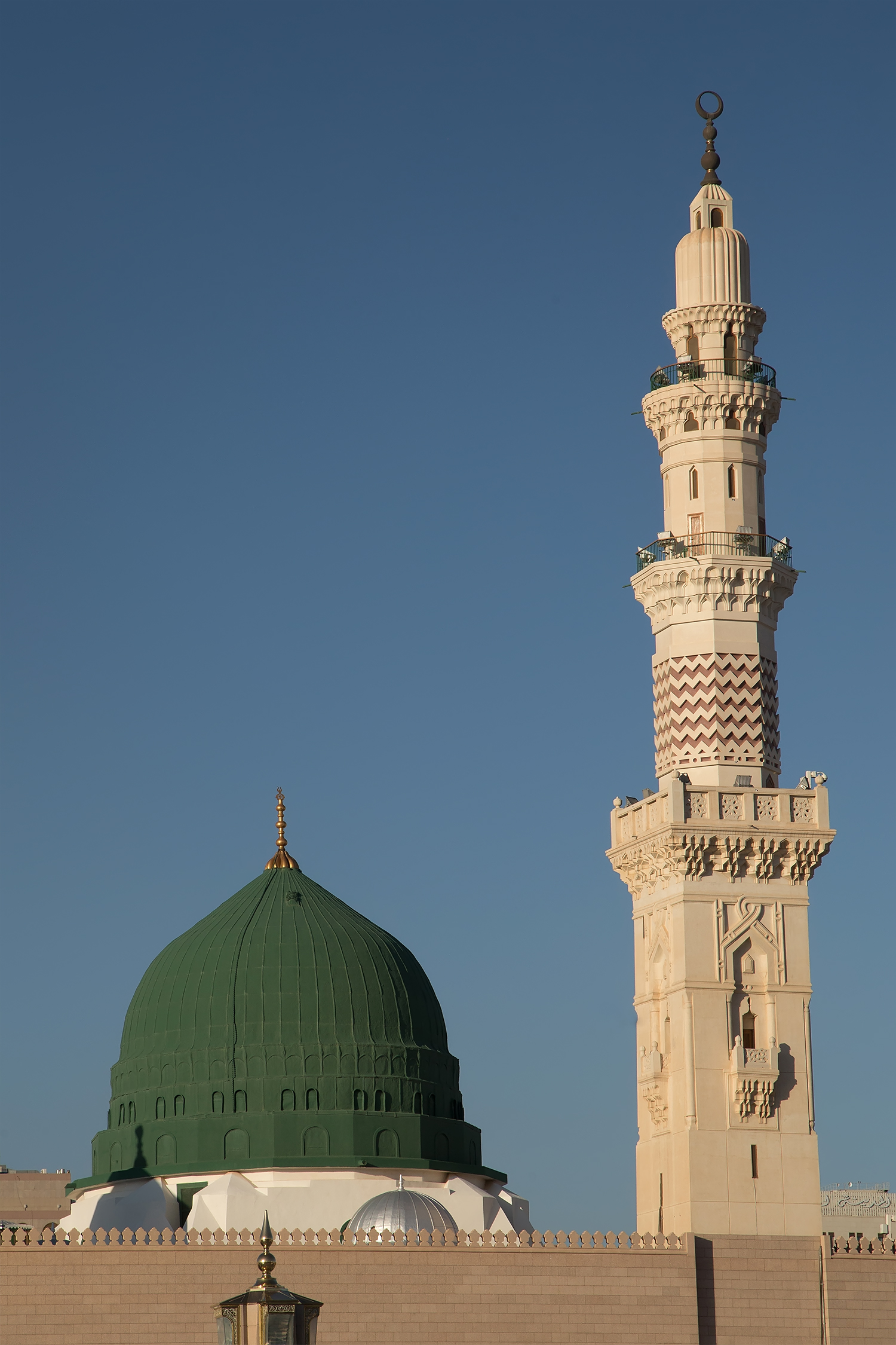 The Green Dome built over the tomb of the Islamic Prophet Muhammad